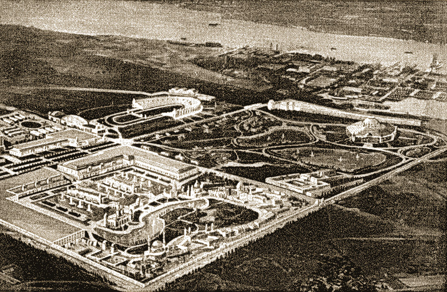 "Bird's Eye" view of the 1926 Sesqui-Centennial Exposition Grounds (Courtesy of the Bruce C. Cooper Collection)